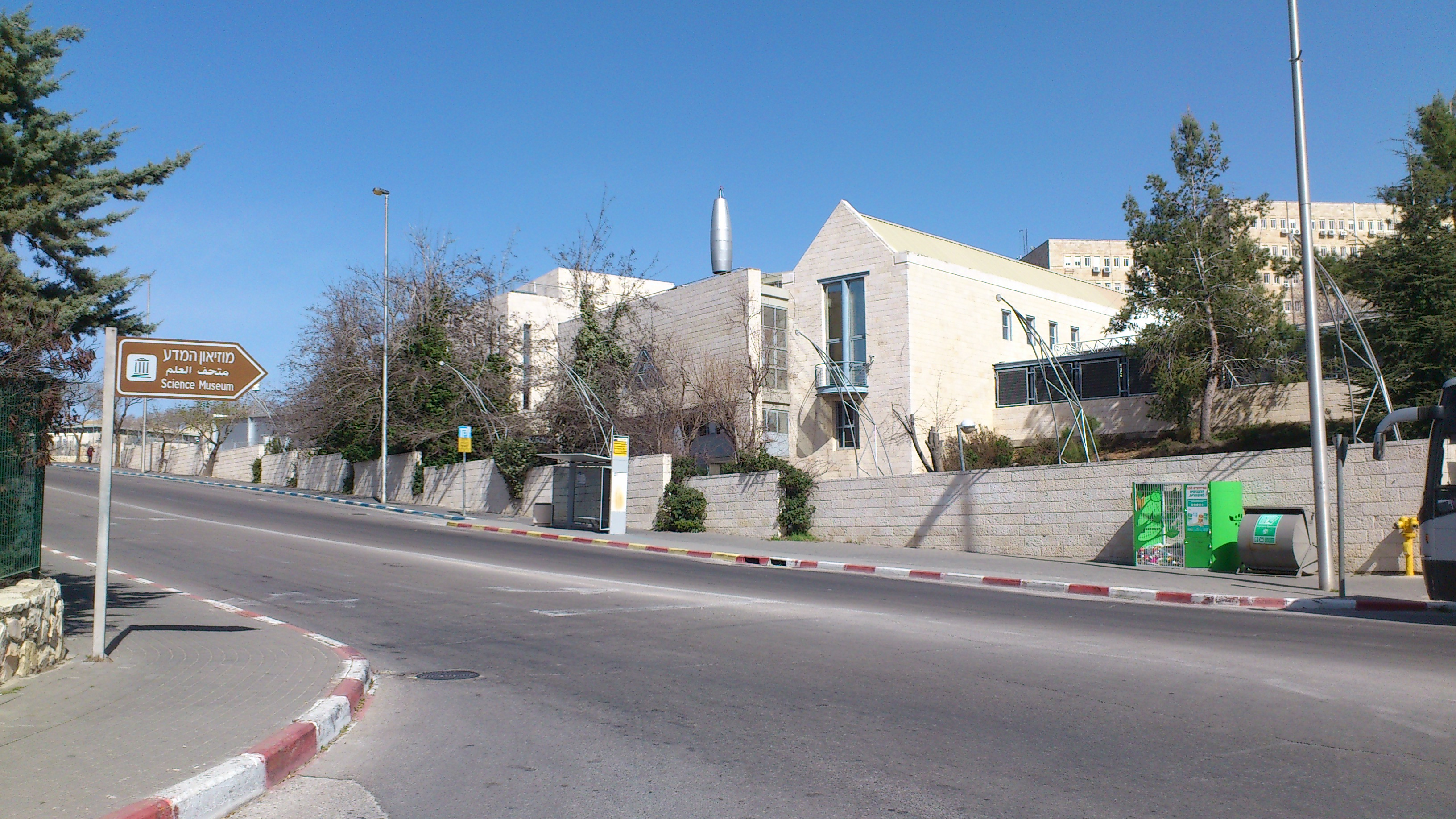 Bloomfield Science Museum Jerusalem